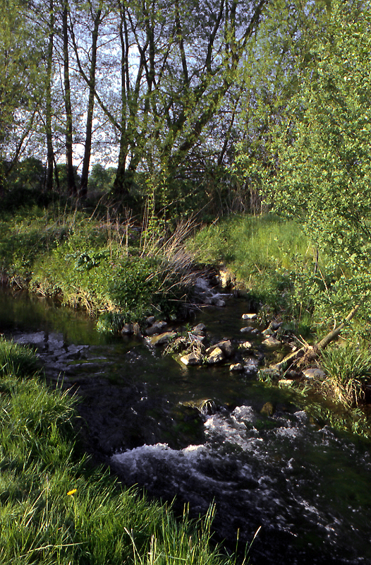 River "Haller" in Springe, Lower Saxony, Germany